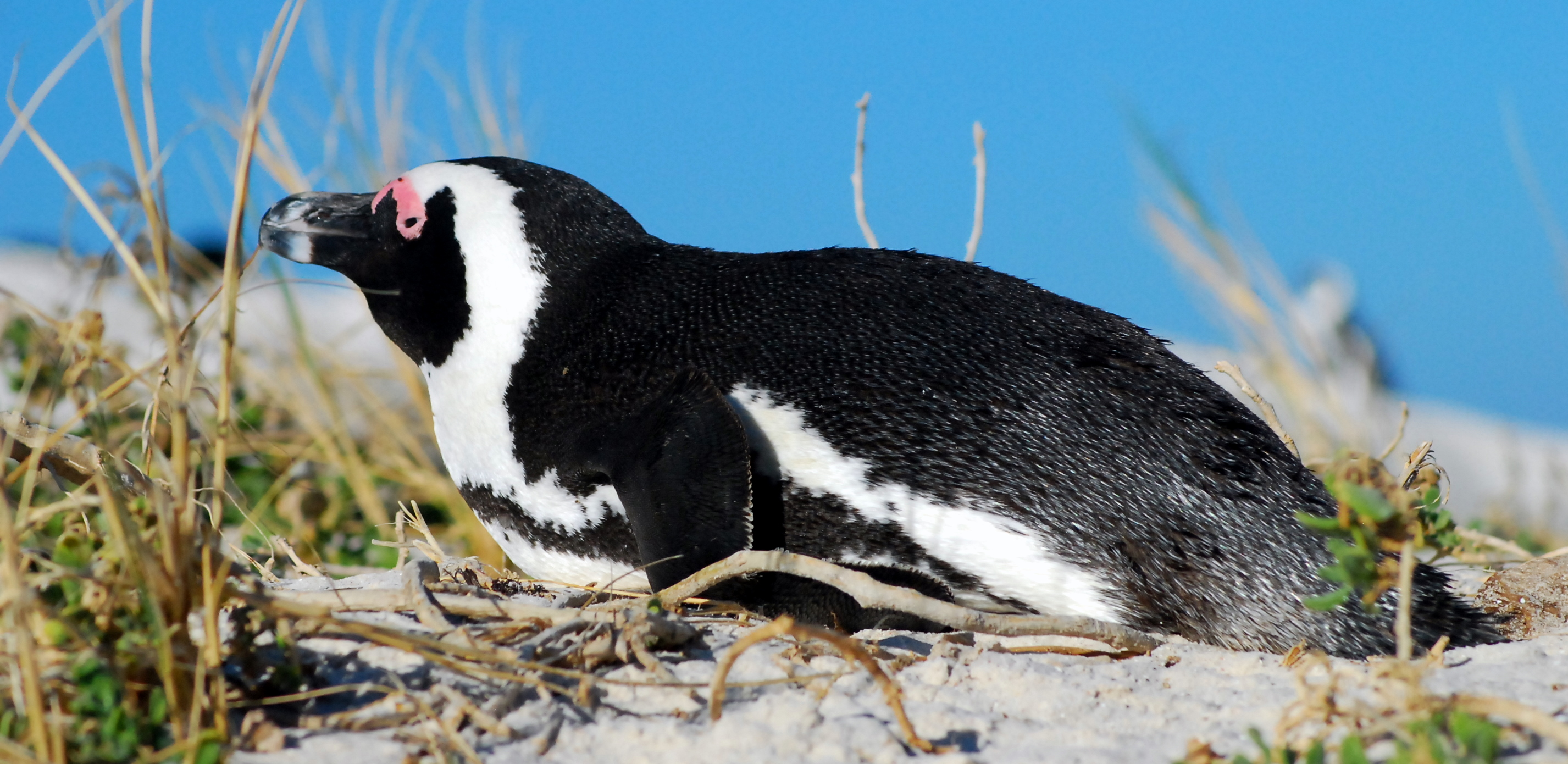 African Penguin at Boulders Beach